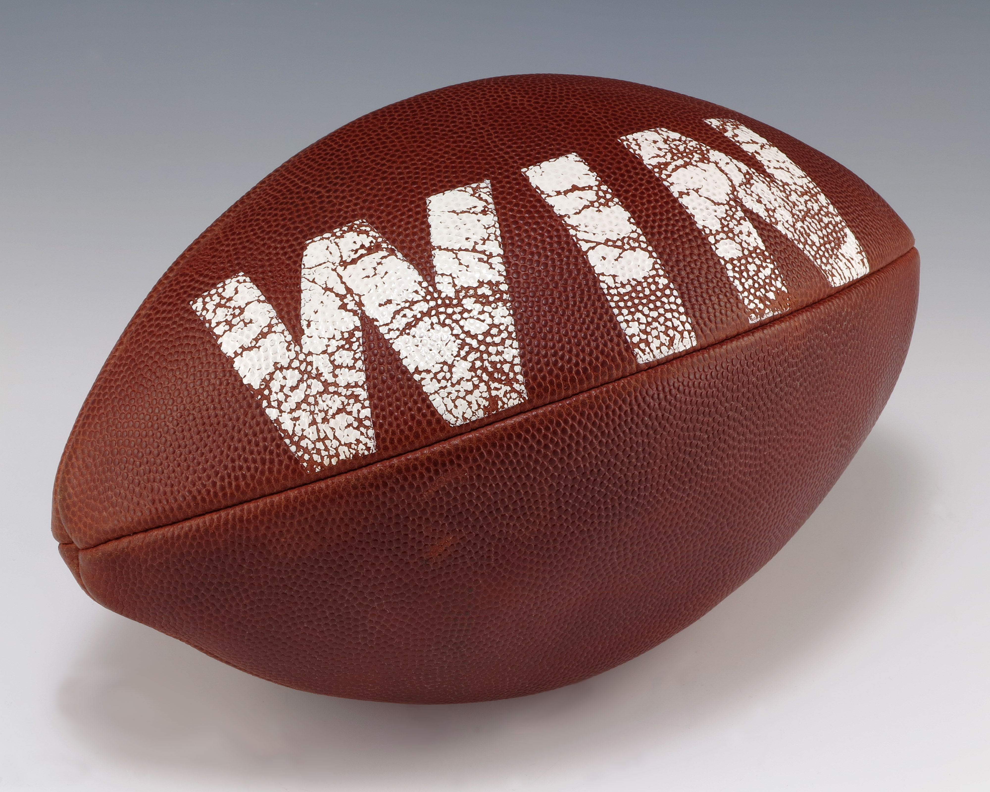 National Football League (NFL) official game ball with “WIN” painted on it in bold white paint.